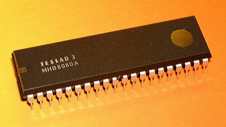 Tesla MHB8080A